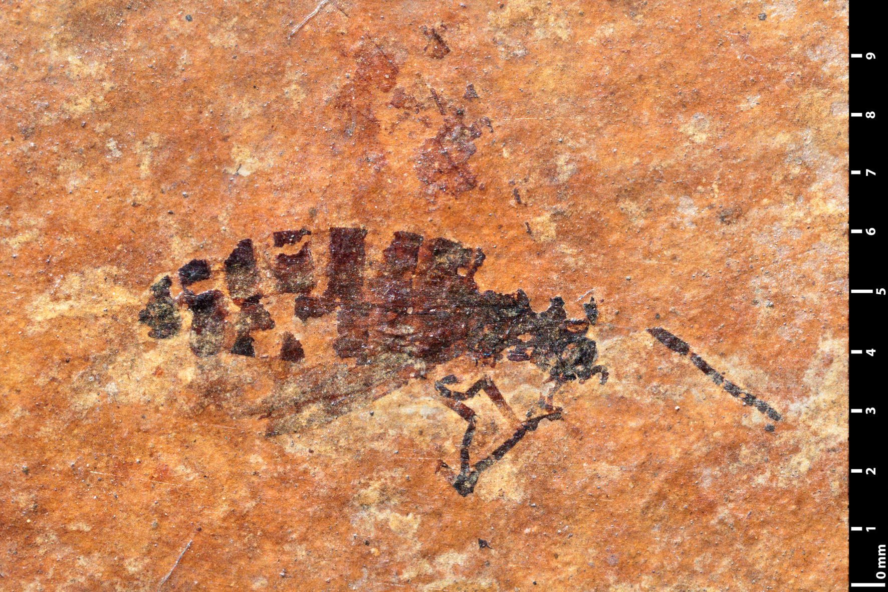 A Plecia bucklandi (synonym Bibio edwardsii) syntype specimen with direct lighting. Rupelian, Oligocene; Corent, Auvergne, France Muséum national d'Histoire naturelle specimen MNHN.F.R06669